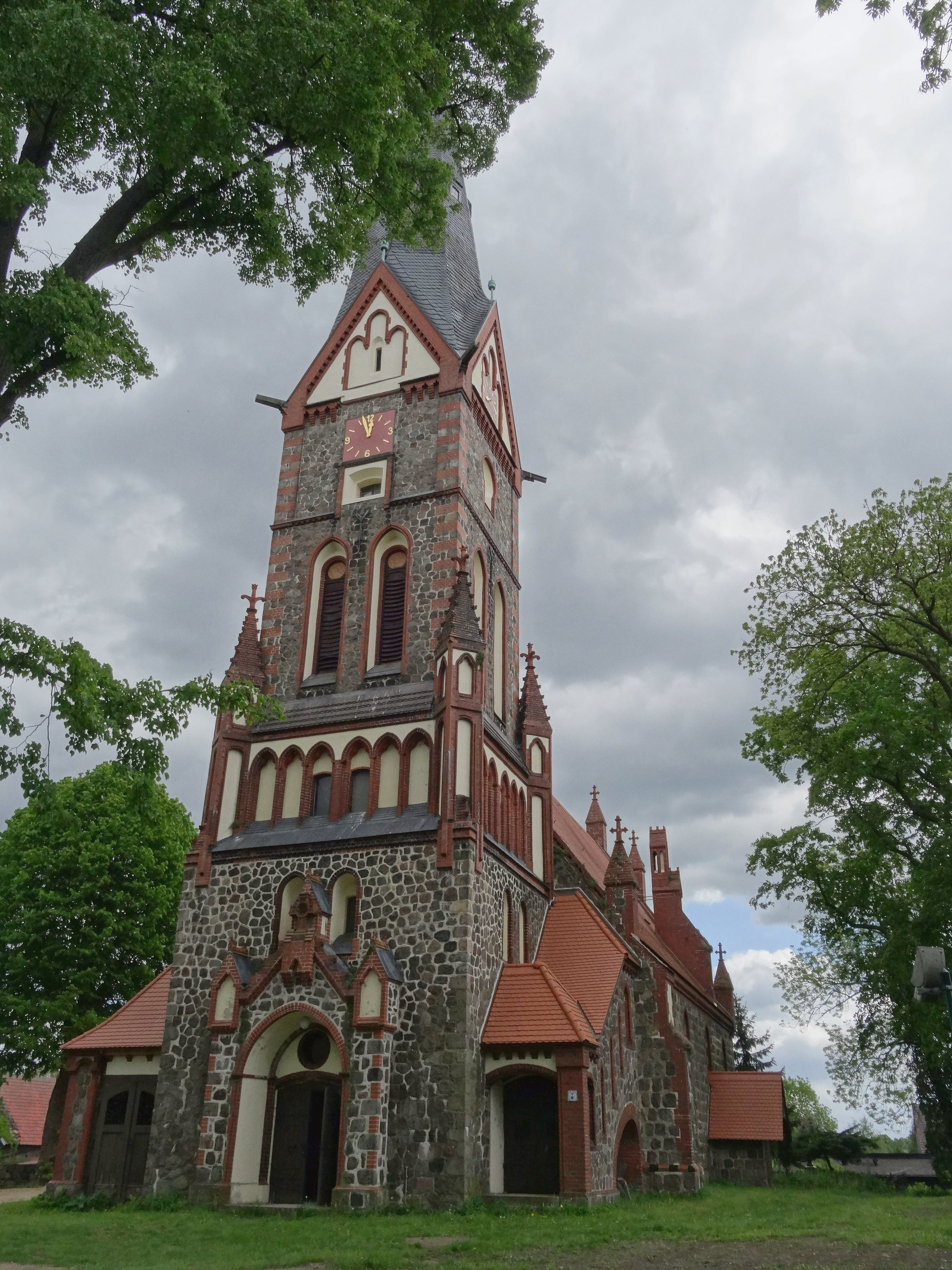 Church of Golzow, Chorin municipality, Barnim district, Brandenburg state, Germany